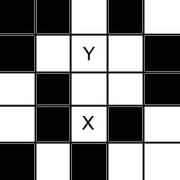 Table to the game